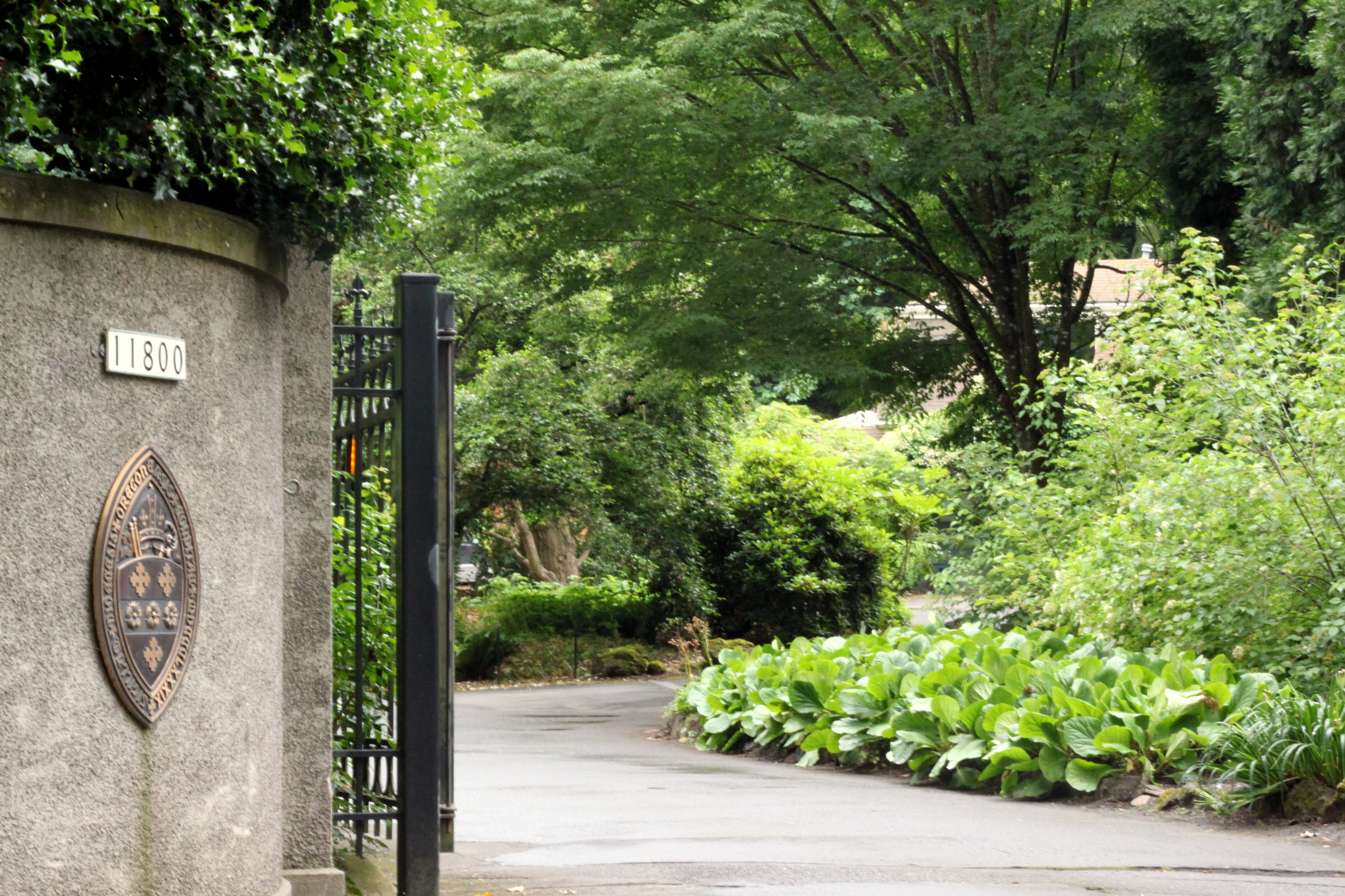 Entrance to The Elk Rock Gardens of the Bishop's Close in Dunthorpe, Oregon near Portland, Oregon. Taken from public property.